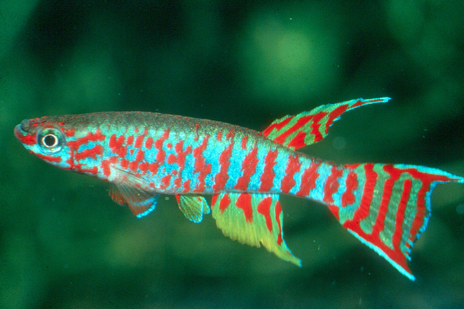 Male Aphyosemion elberti "Red T", a West African Killifish from Cameroon. This is a photo of a small (2 in) fresh water fish taken in a photo tank in 1979. It was known at the time as Aphyosemion bualanum "Red". Common name was Killifish with a Banner or Flag. The "T" was added to honor the American Hobbyist Peter Tirbak, who first brought it into the U.S. from Europe, where it was a commercial importation.